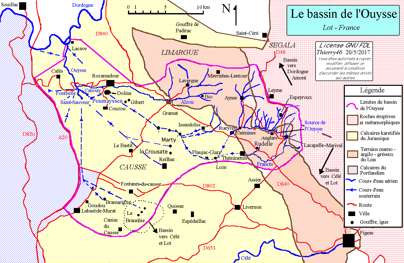 Schema of drainage basin of river Ouysse in Lot in France.